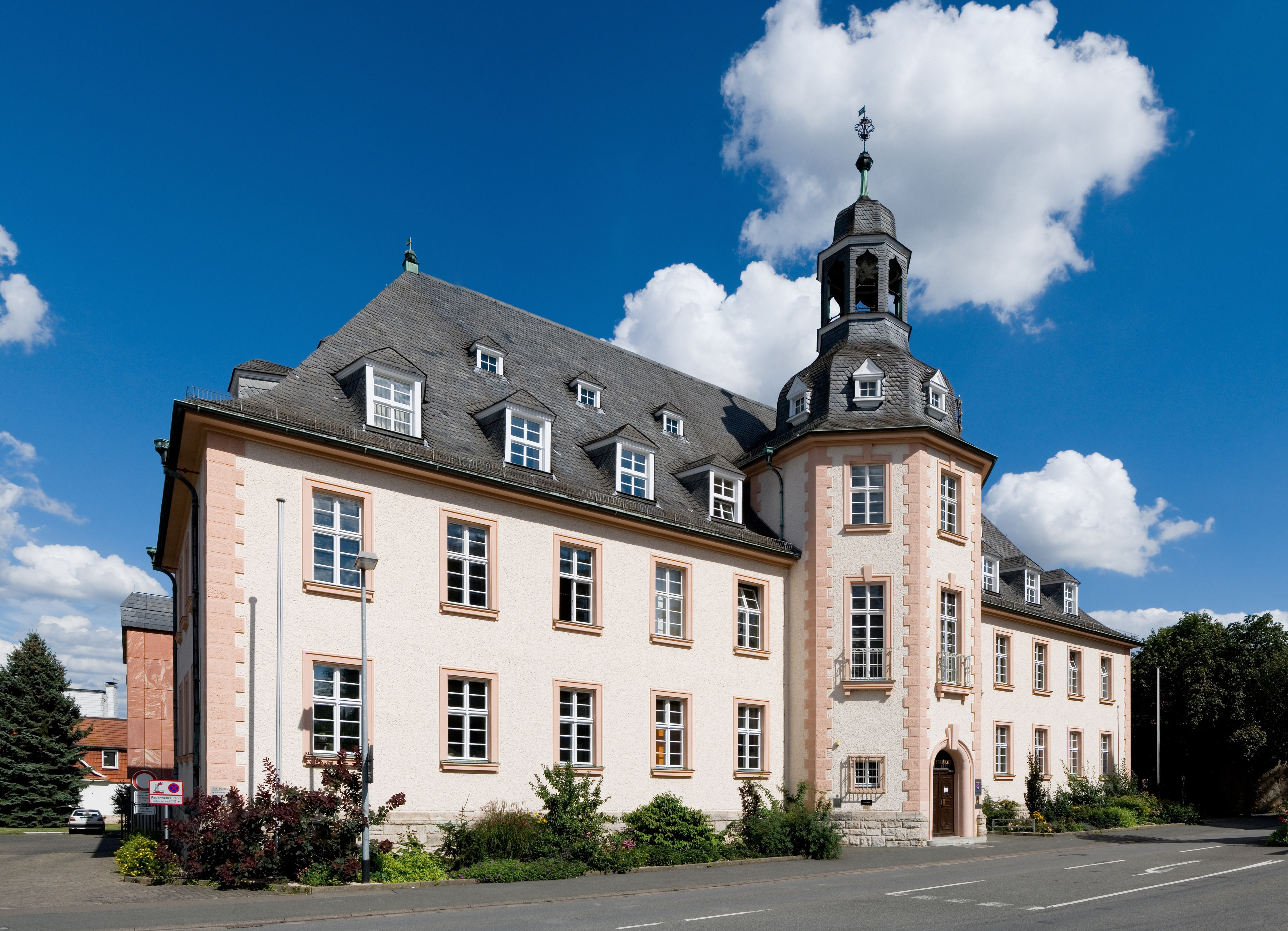 Korbach (Hesse, Germany) – court building This image was created with Hugin. This photograph was taken with a Nikon D3000